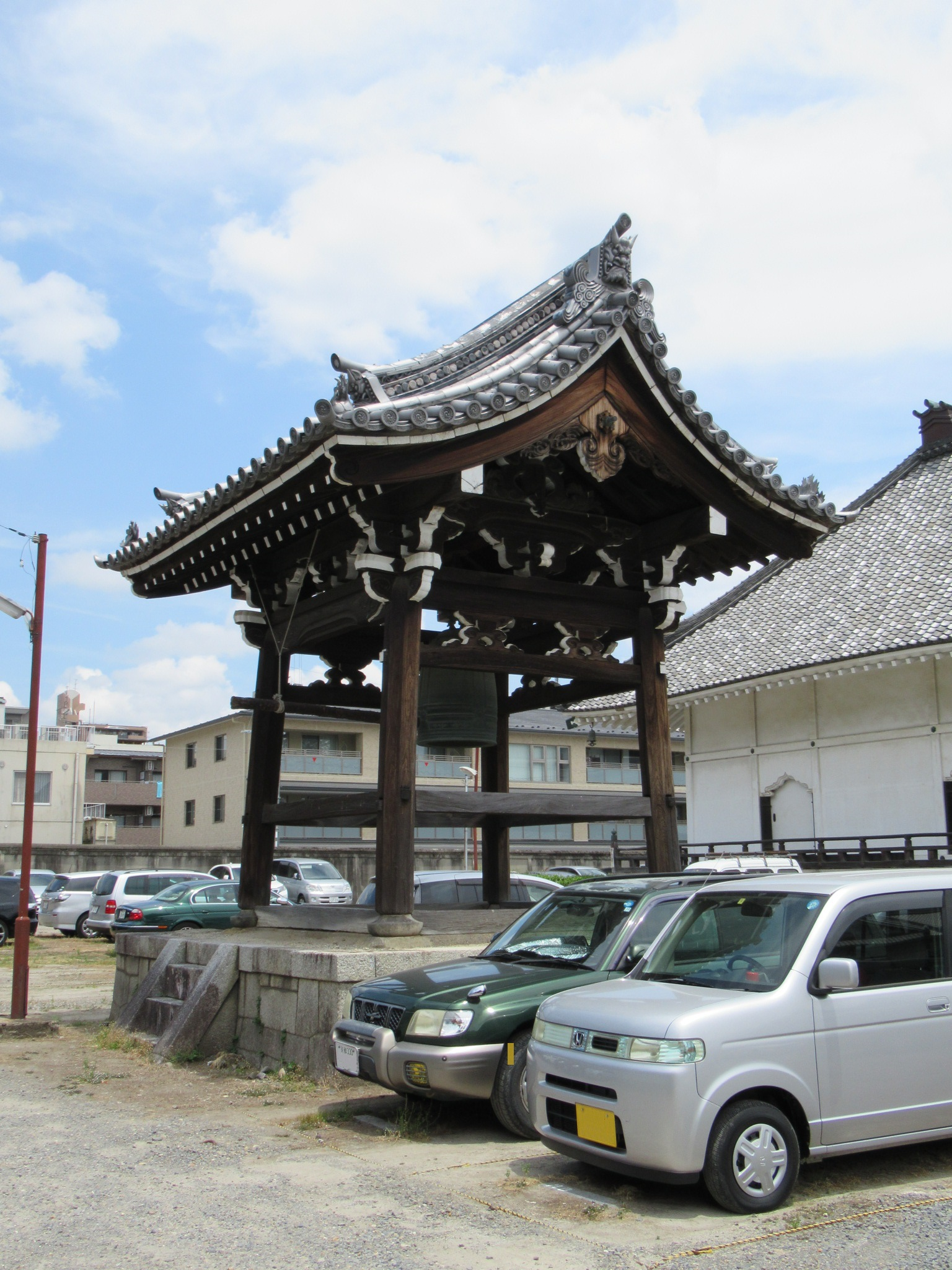 Honzenji, Kamigyo-ku, Kyoto.